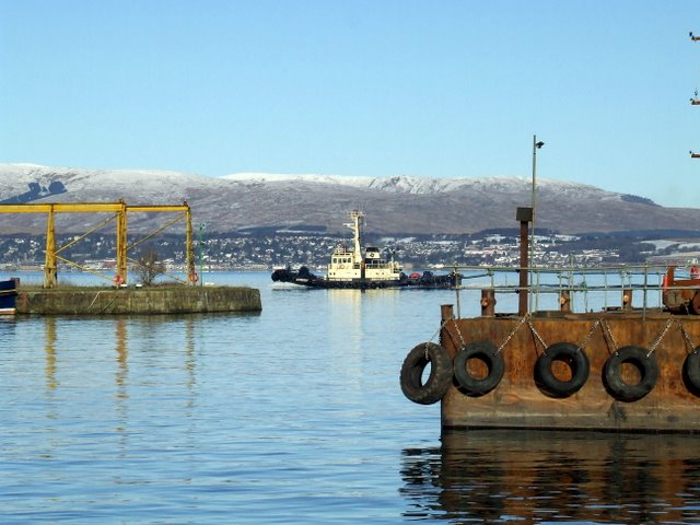 Victoria harbour Tug Warrior heads downriver past the entrance to the harbour.